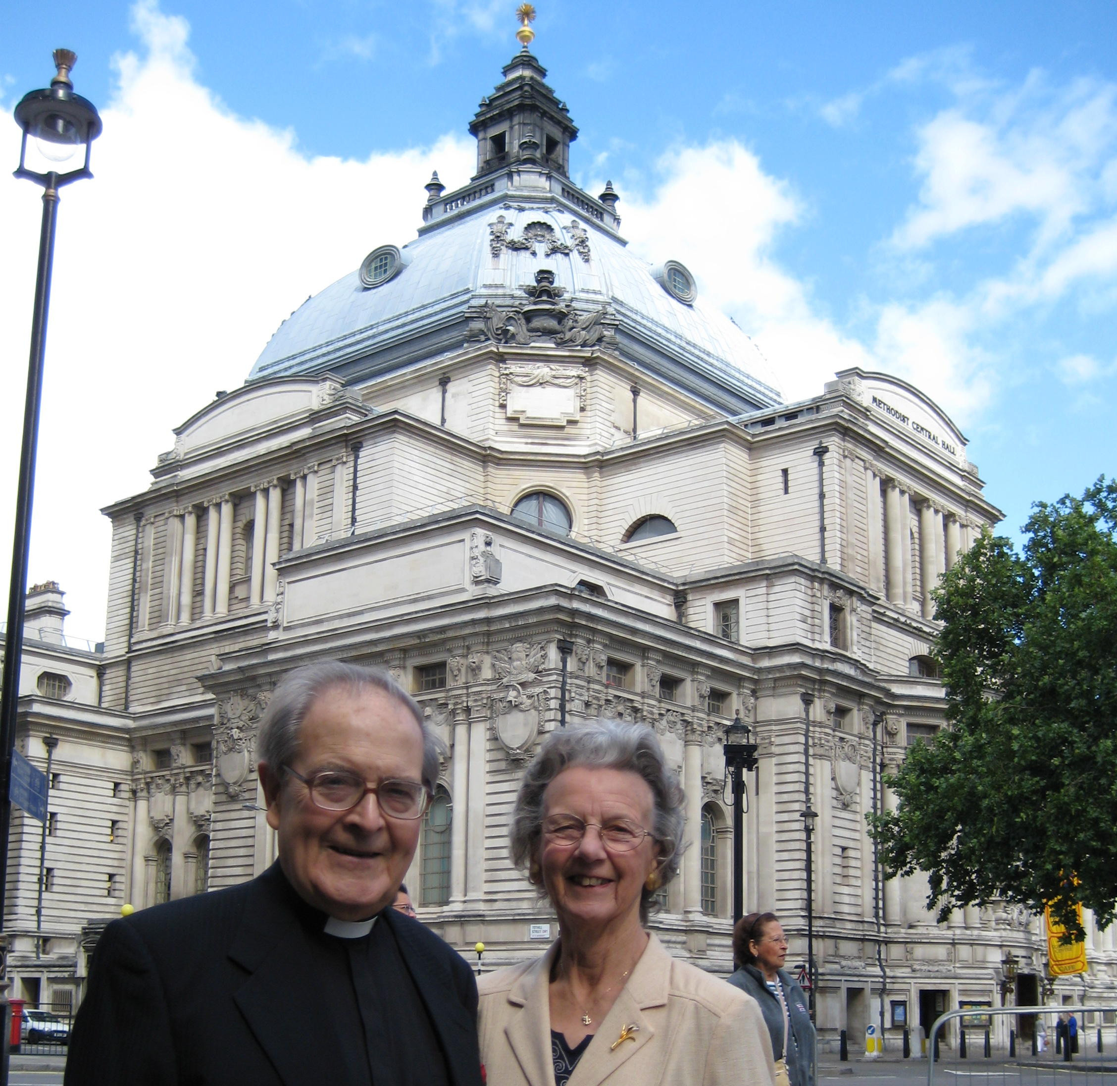 Dr & Mrs Tudor at Westminster Central Hall 2008